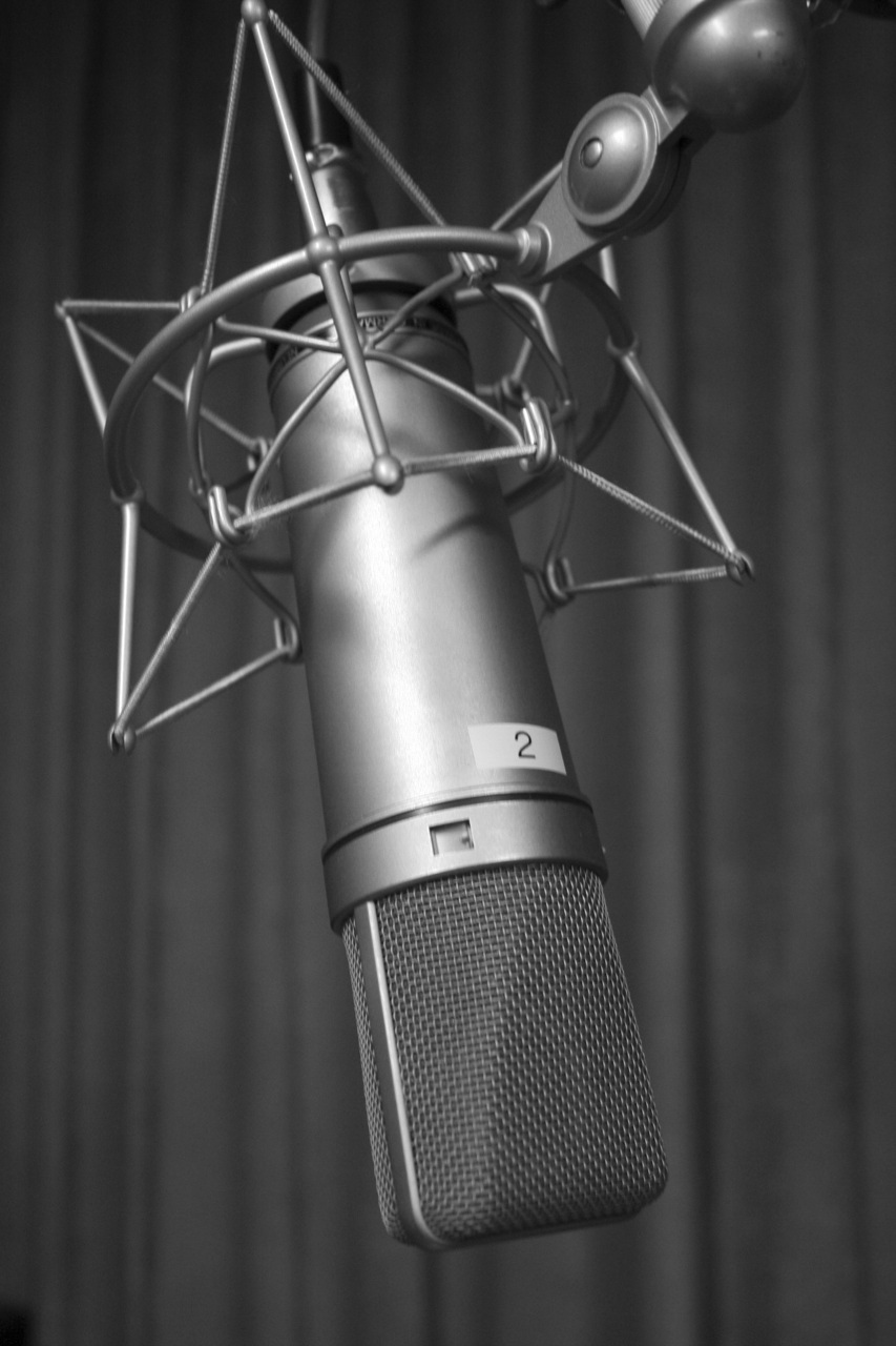 Black and white photograph of a Neumann U87 microphone.